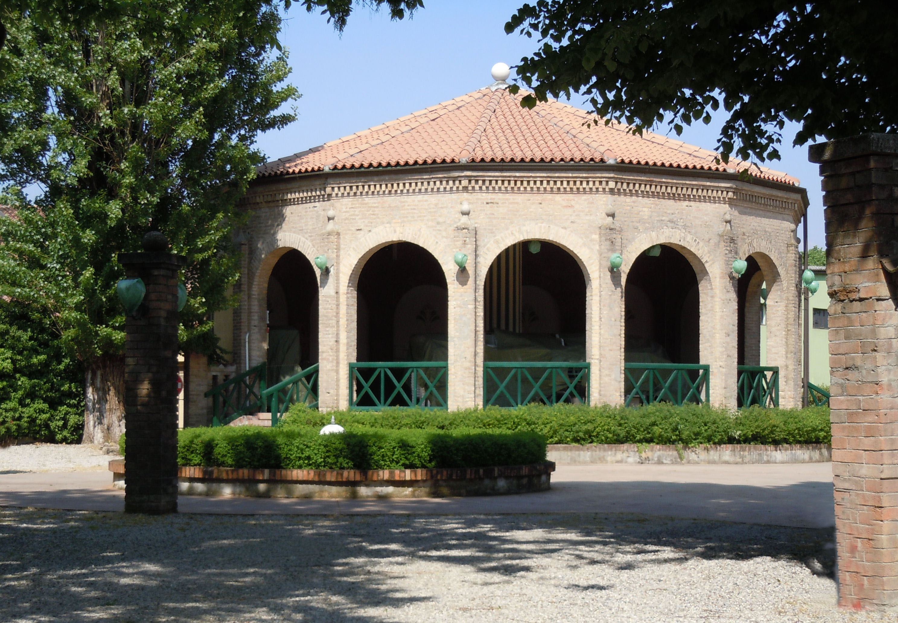 Castel Goffredo, parco La Fontanella